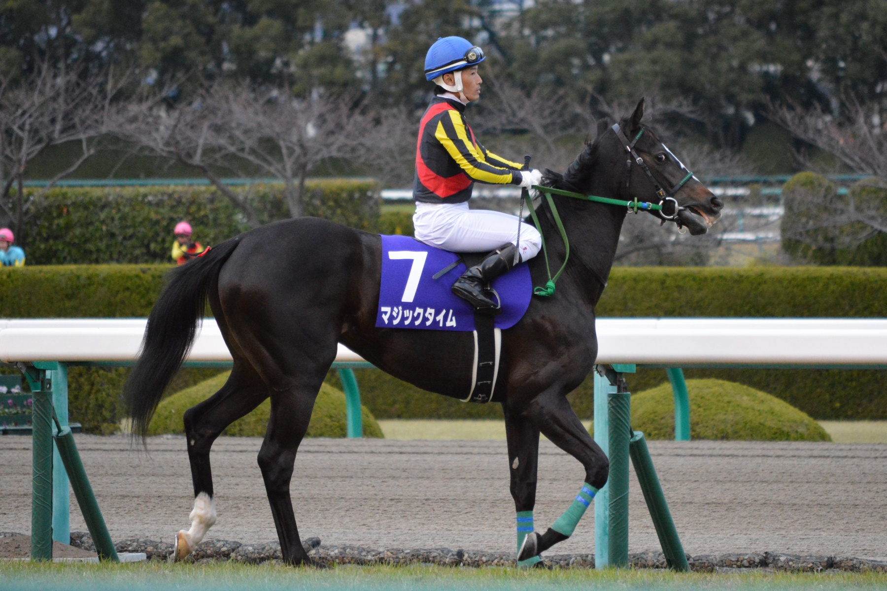 Japanese race horse Magic Time at Hanshin racecourse. Hanshin (JPN) 8 Dec 2013Hanshin Juvenile Fillies (Grade 1) (2yo Fillies) (Turf) 1m Firm RankHorse NameOddsAgeWgtJockeyTrainer1stRed Reveur (JPN)136/10F28-7Keita TosakiNaosuke Sugai6thMagic Time (JPN)193/10F28-7Hiroki GotoTadashige NakagawaOthers are omitted. (18 horses entered in a race.)